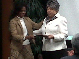 Georgia Davis Powers accepts an honorary token from Dr. Sonja Feist-Price who thanks her for coming to speak at the University of Kentucky as part of the AASRP Race Dialogues, co-sponsored by Randolph Hollingsworth's class, "Sisters of the Struggle: History of Women in Kentucky during the Civil Rights Era, 1920s - 1970s."